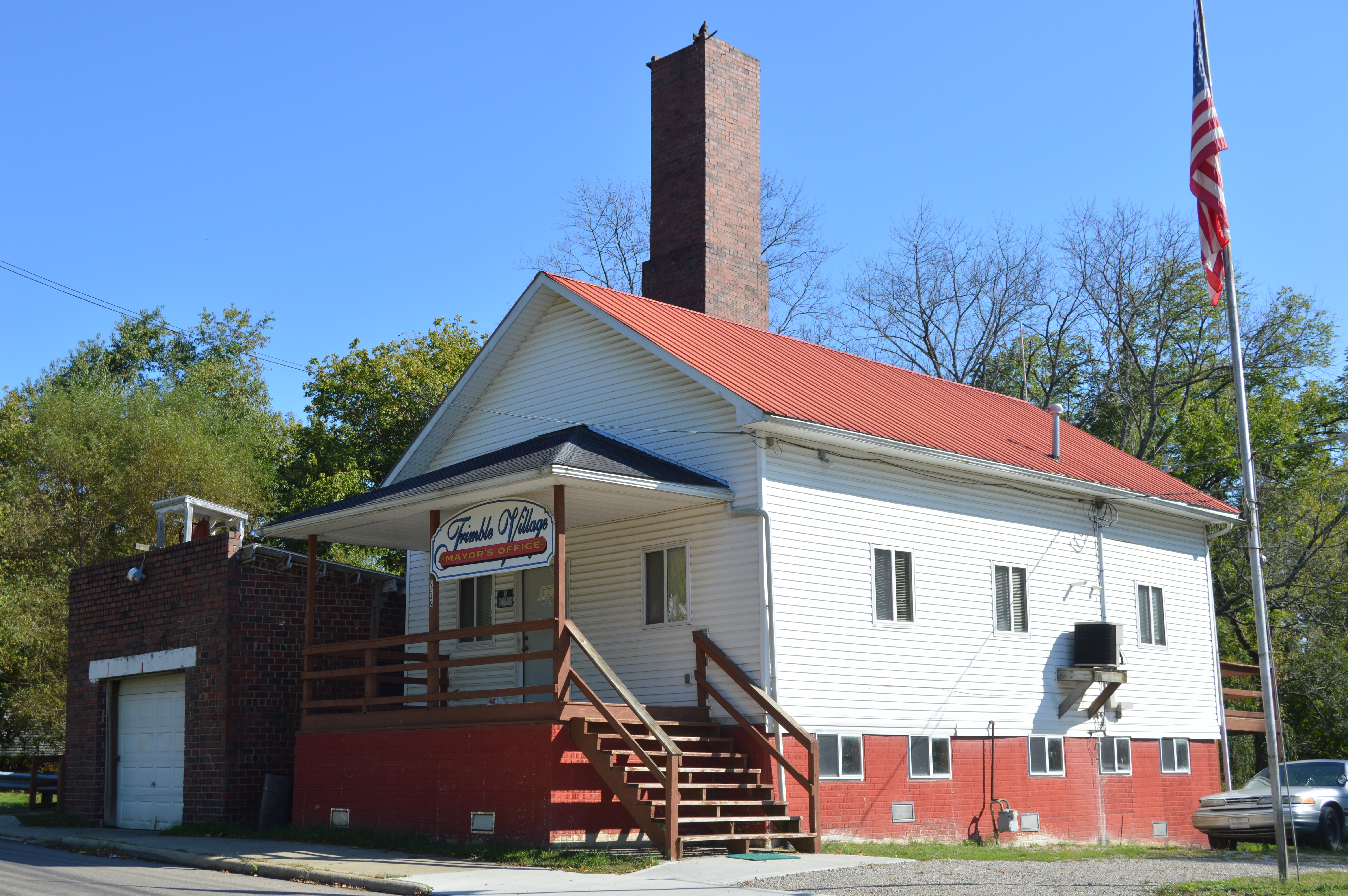 Front and western side of the Trimble village hall, located at 19549 Congress Street (State Route 329) in Trimble, Ohio, United States.